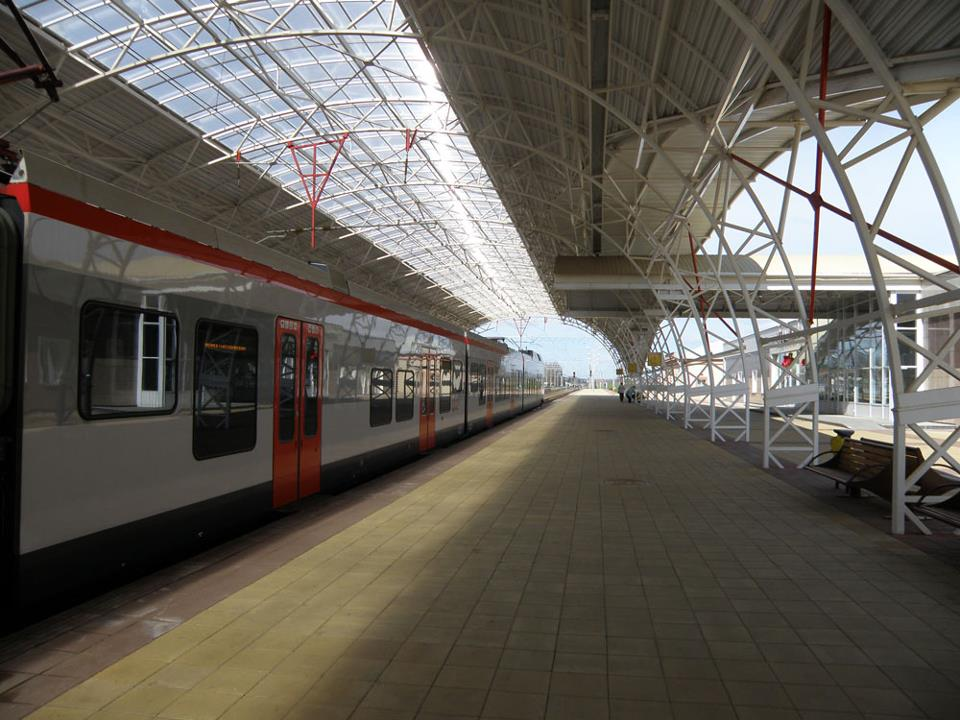 City Line train in the train station of Zhdanovichy